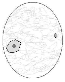 Cloud of mucus in urine